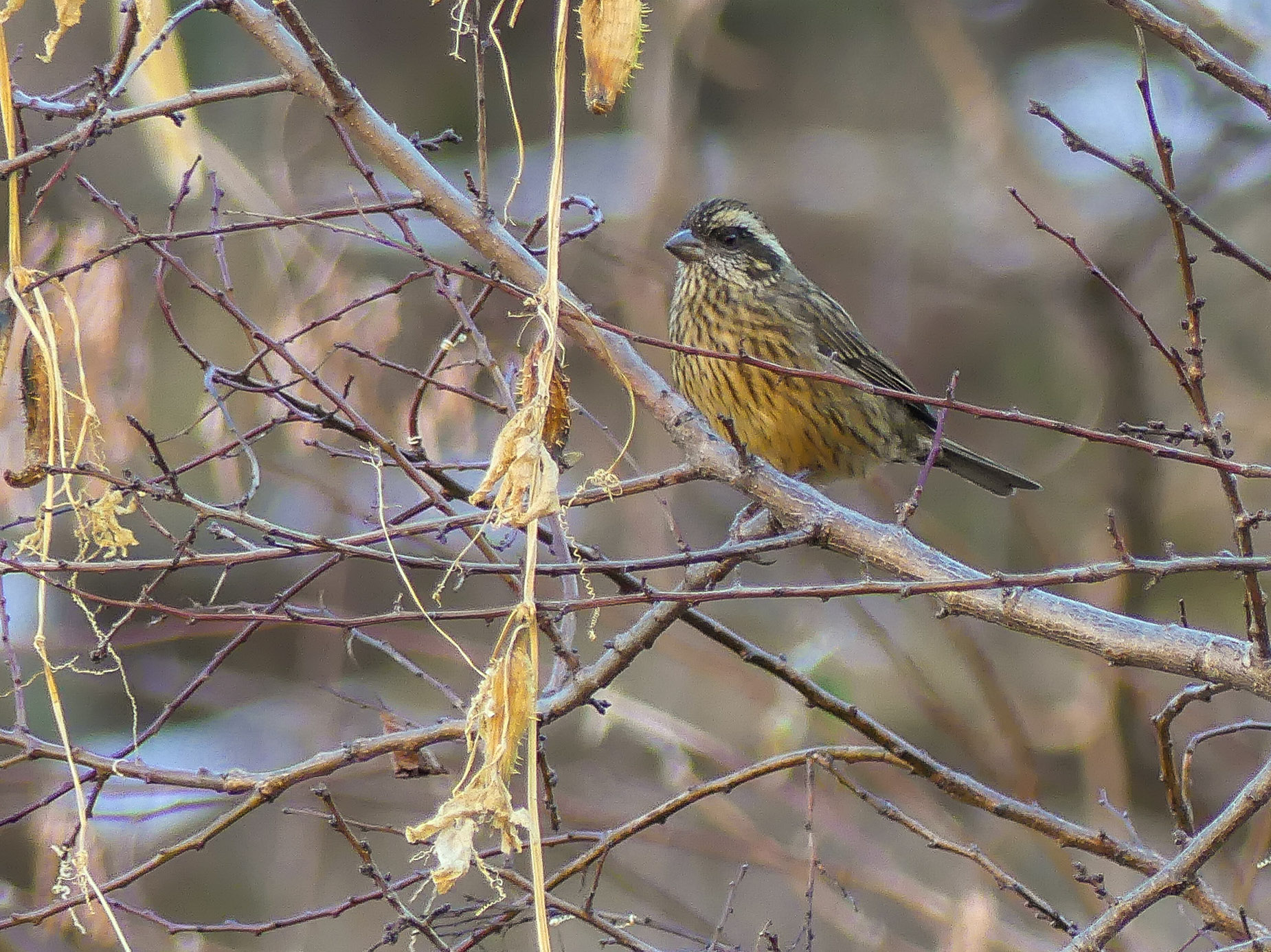 Spot-winged Rosefinch (Carpodacus rodopeplus), female, Uttarakhand, India